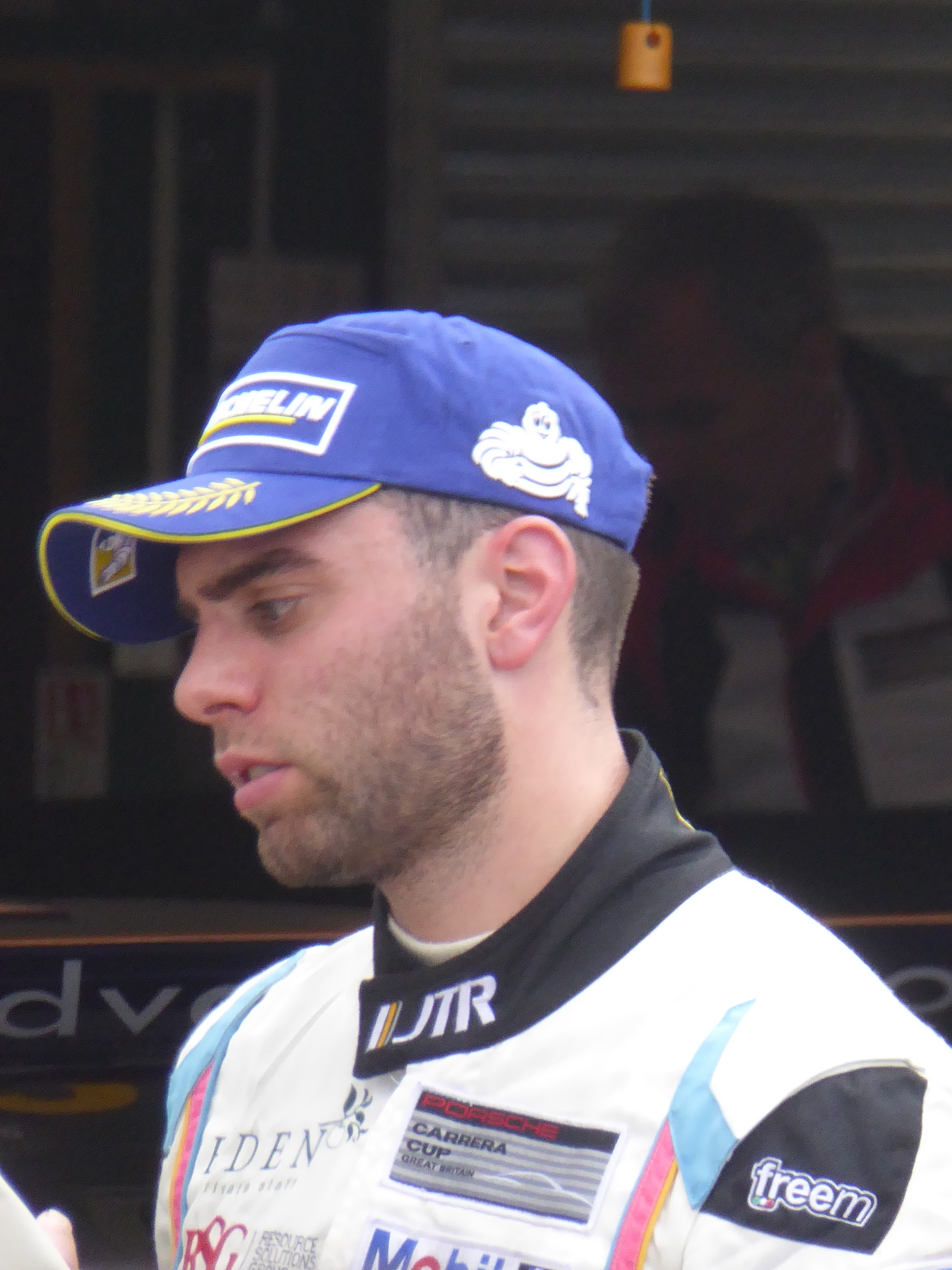 Dino Zamparelli (JTR), at the Knockhill round of the 2017 Porsche Carrera Cup Great Britain.